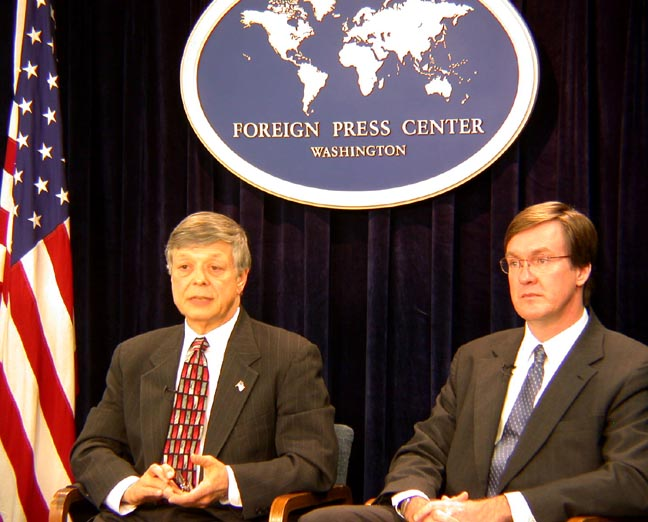 Harlan L. Watson, Senior Climate Negotiator and Special Representative, U.S. Department of State and David W. Conover, Director, Climate Change Technology Program, U.S. Department of Energy at Washington Foreign Press Center Briefing on "An Overview of U.S. Global Climate Change Policy in Advance of the Upcoming Conference of the Parties to the UN Framework Convention on Climate Change (Buenos Aires, December 6-17)."